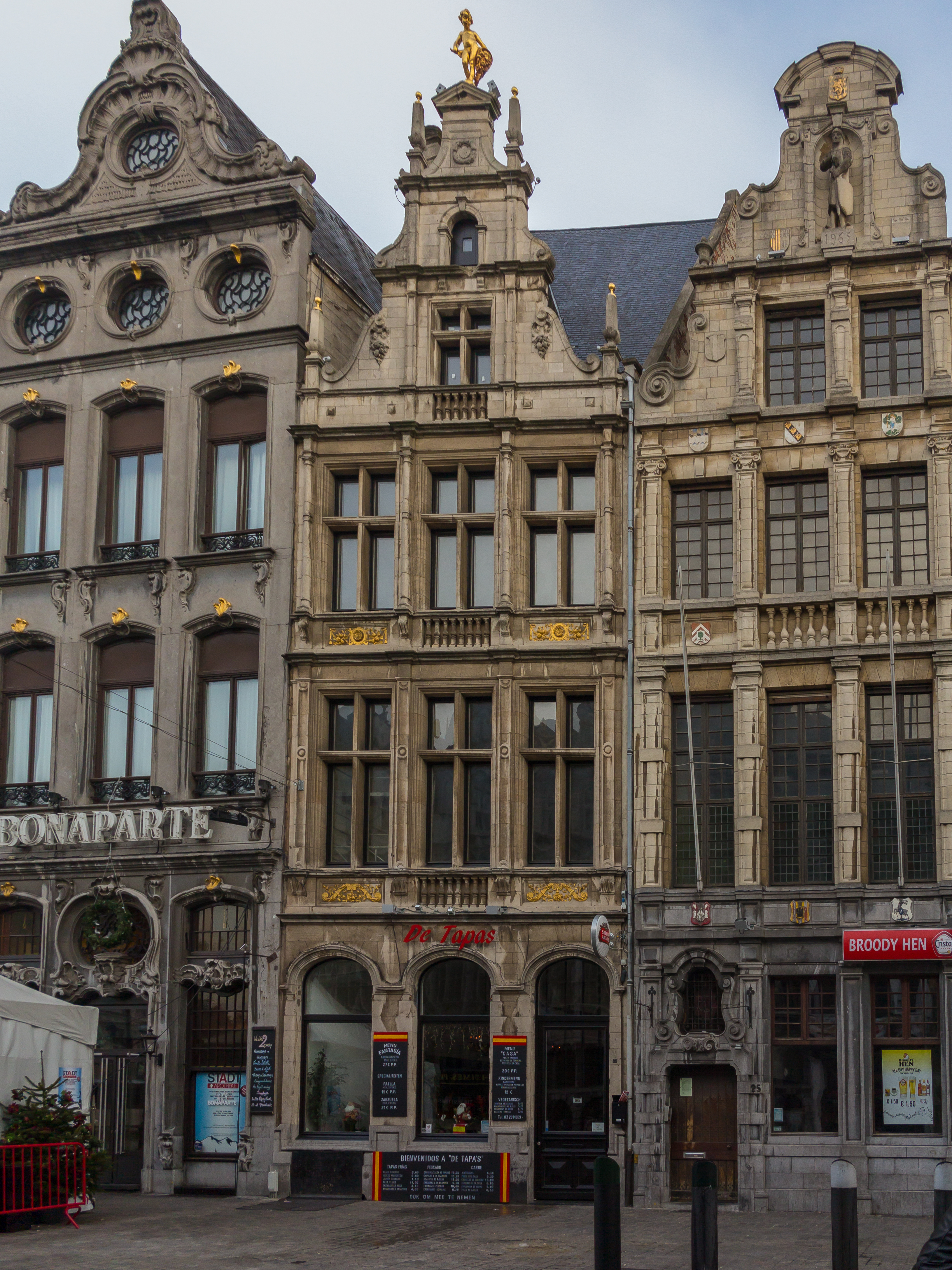 Antwerp, monumental house: Grote Markt 23 Breedhuis, huis de Simme of den Schminkel